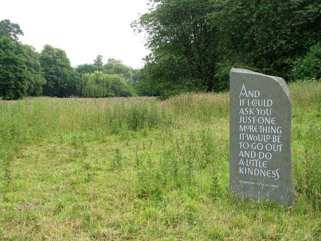 Memorial stone This memorial stone - it commemorates the journalist Deborah Hutton, who died in 2005 at the age of 49 - is situated in a meadow adjoining St Michael's churchyard in the north.